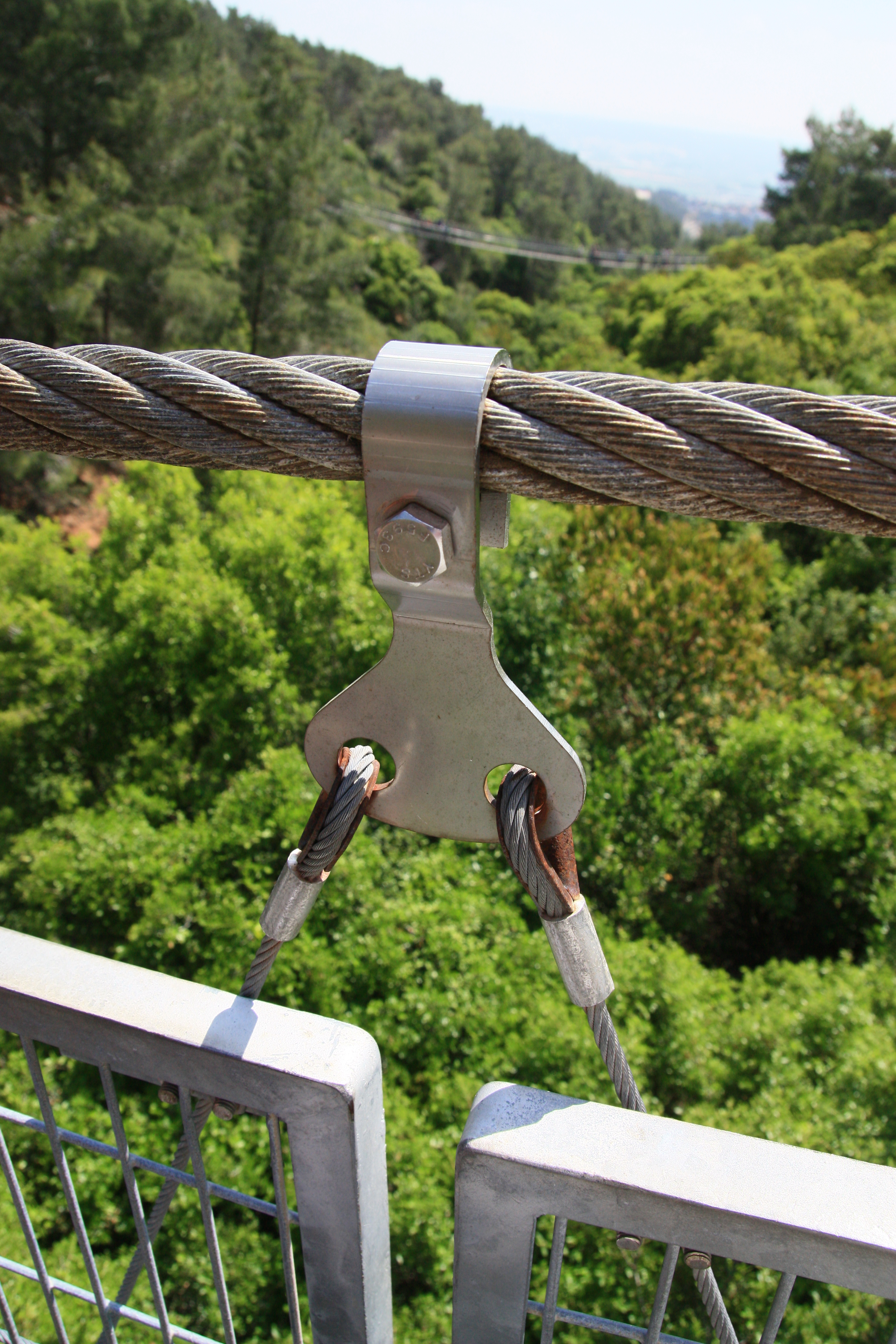 Mount Carmel